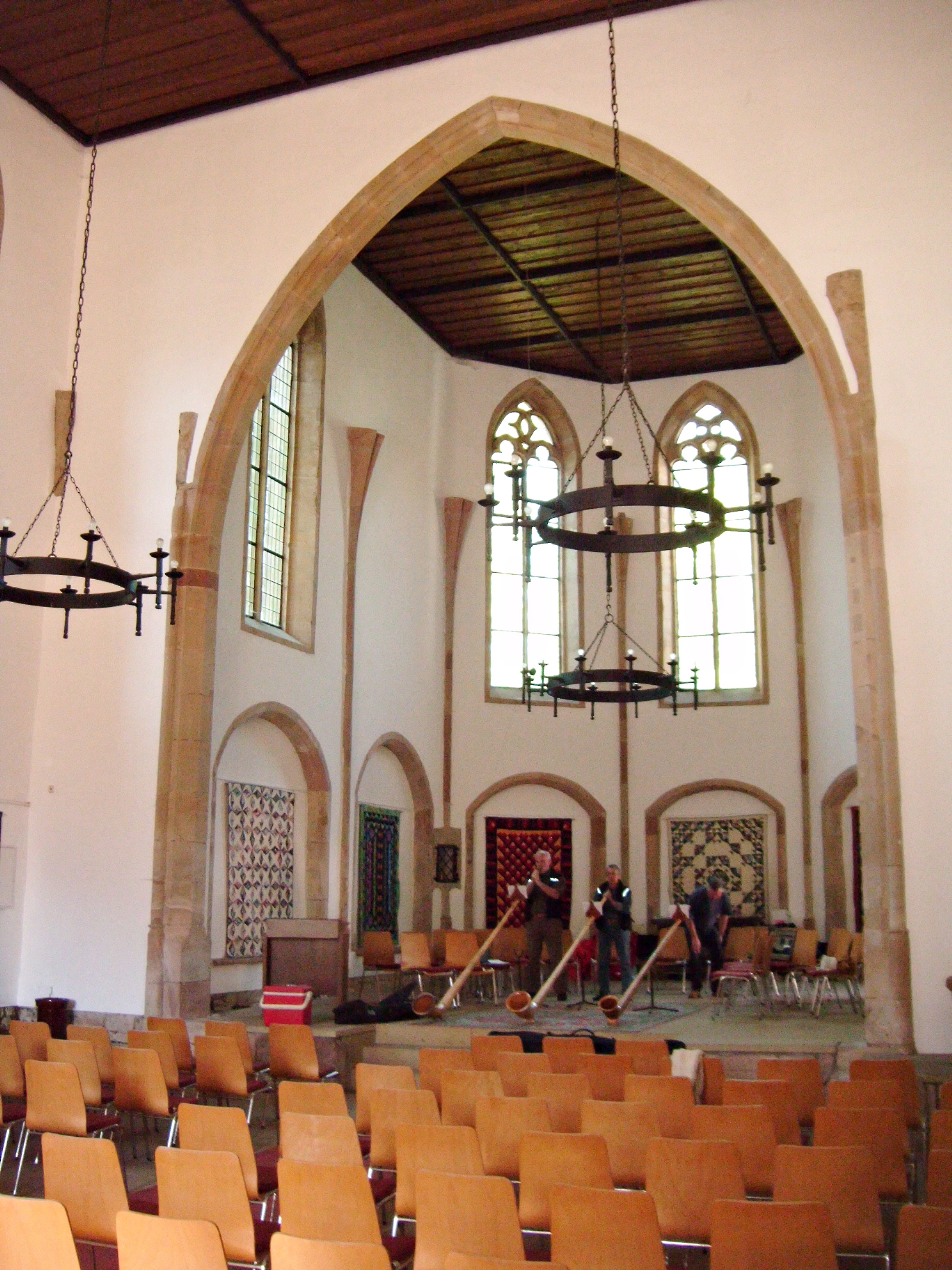 Kloster Hane, Bolanden, Kirche von innen